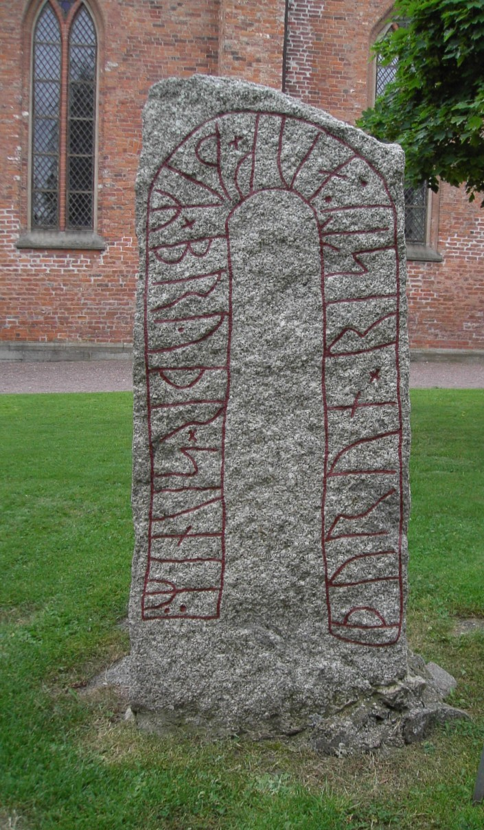 Rune stone, # Ög165, outside the church of Vårfrukyrkan, Skänninge, Östergötland, Sweden. The stone is 230 centimeters high and is probably carved in the 11th century.